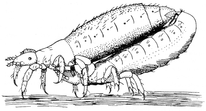 Copulation in body lice, Pediculus humanus corporis (P. humanus and P. vestimenti in original). The male having dilated the vagina, has extruded his vesica with its distal penis into the vagina, and withdrawn the dilator whose point is flexed on his back. He is now firmly anchored by the teeth on the vesica adhering to the walls of the vagina, and the couple walk away to a retreat. This was drawn from hasty sketches subsequently amplified from killed specimens.